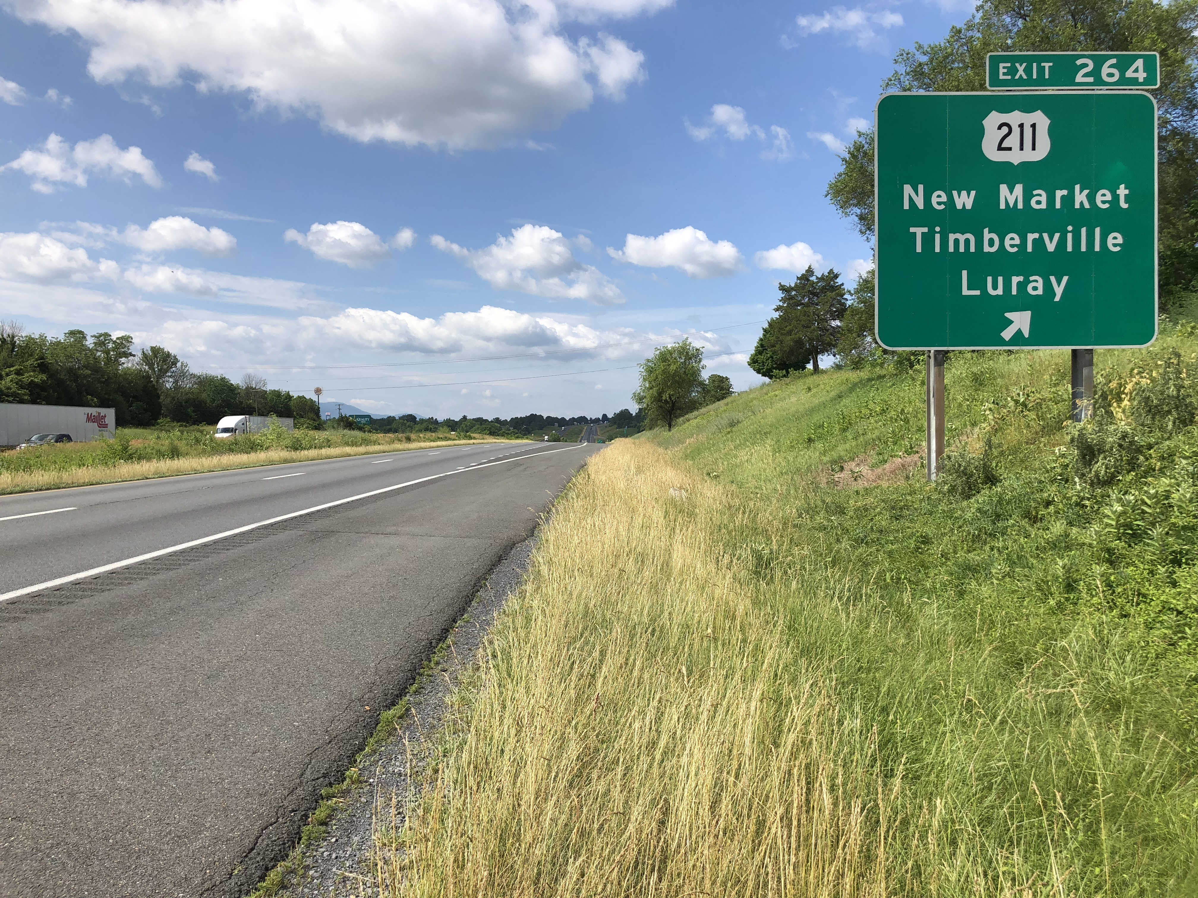 View south along Interstate 81 at Exit 264 (U.S. Route 211, New Market, Timberville, Luray) in New Market, Shenandoah County, Virginia